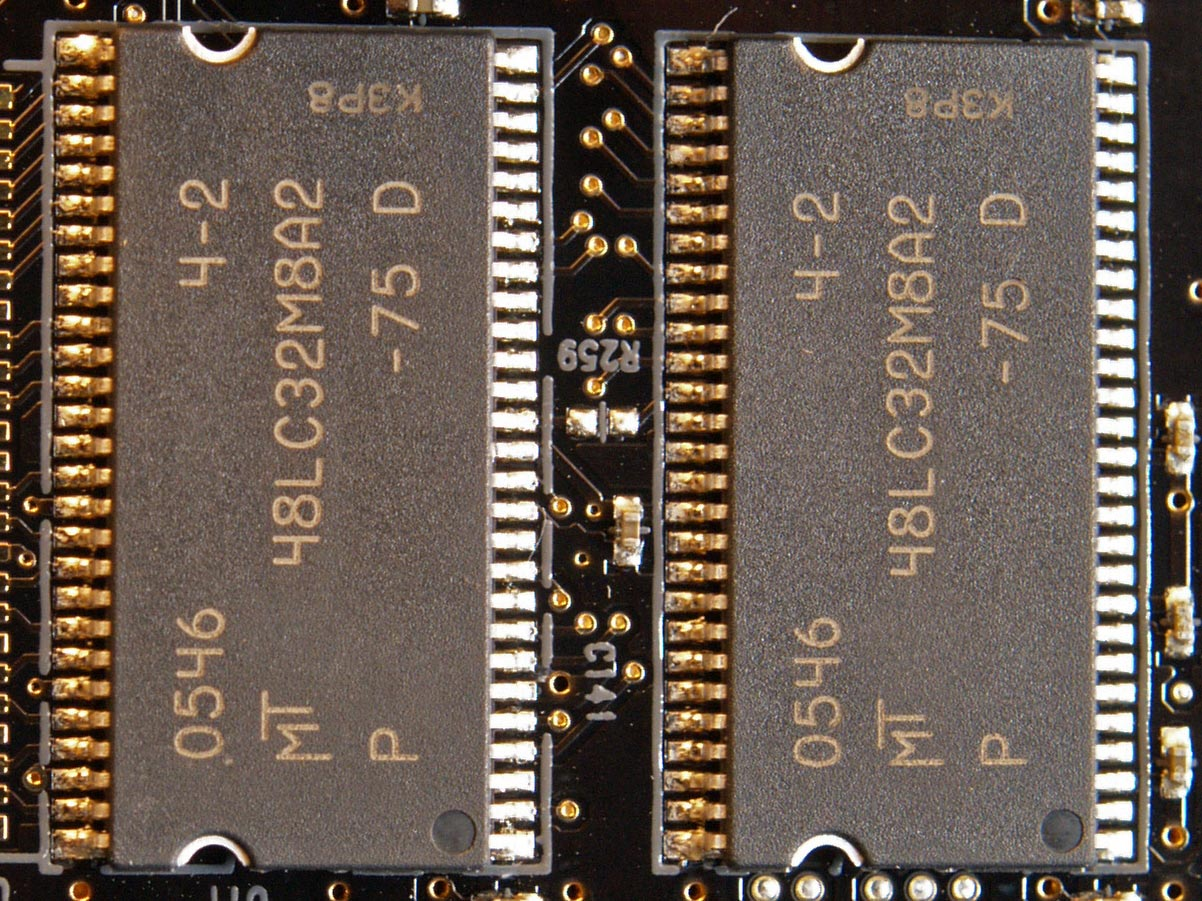 64 MB sound memory of Sound Blaster X-Fi Fatal1ty Pro brings by two Micron 48LC32M8A2-75 C SDRAM chips working at 133 MHz with latency at 7.5 ns